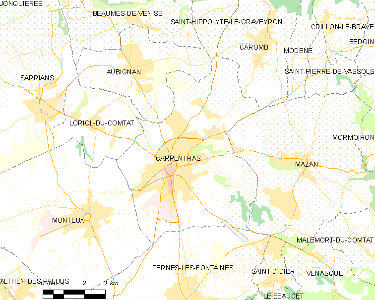 Map of French municipality Carpentras